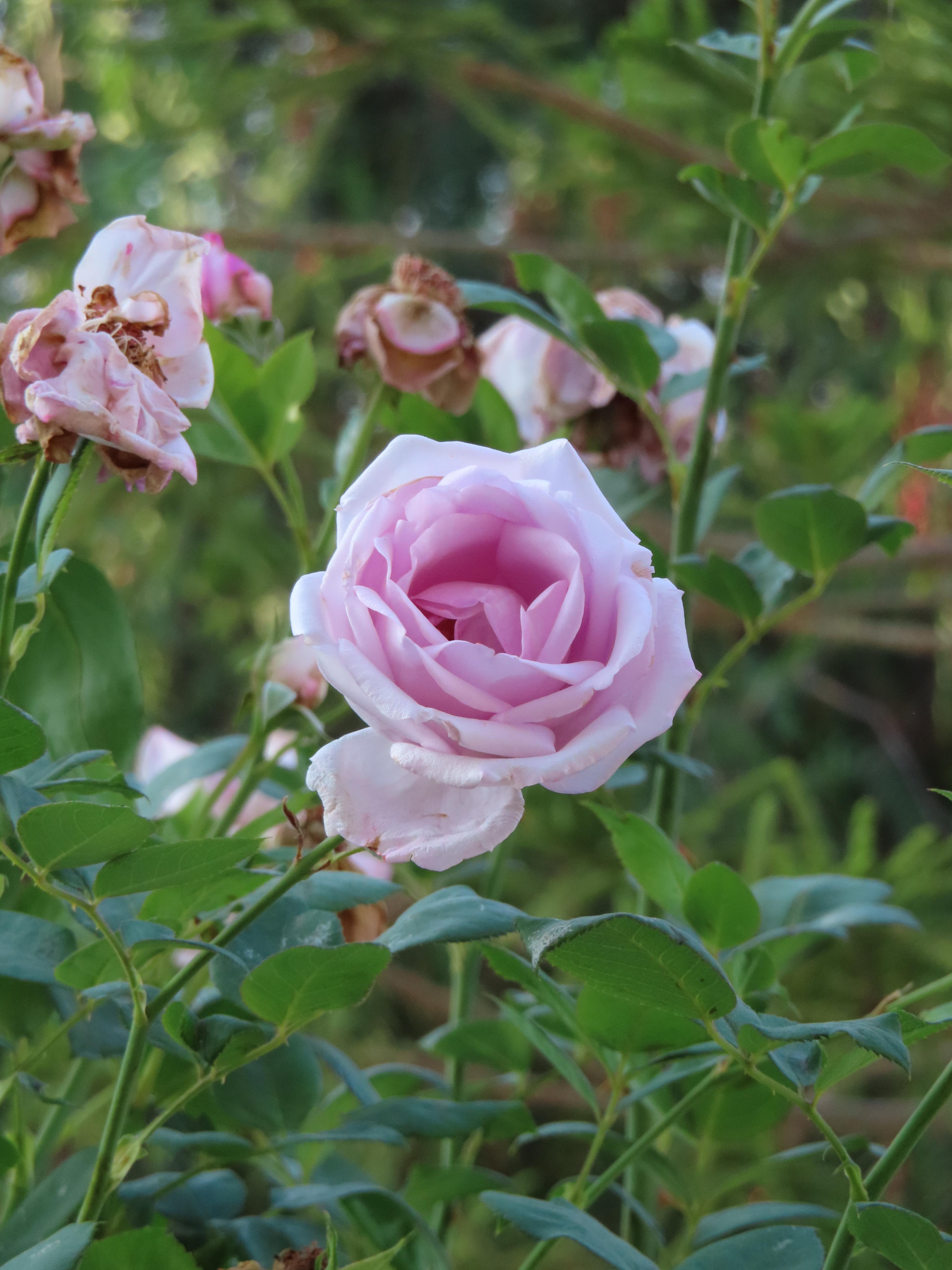 Canon sx740hs